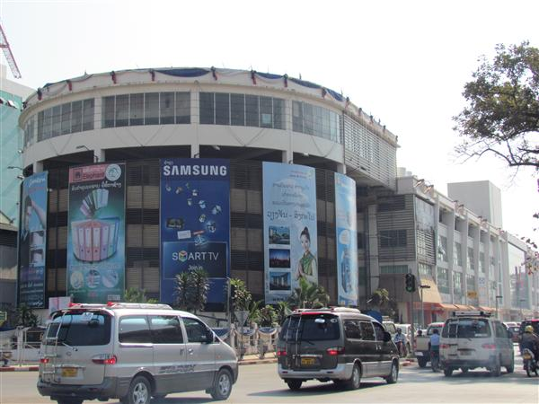 Talat Sao now is renovated to 3 sections; Talat Sao (classic local market), Talat Sao Mall (mall of electronics and hardware goods), and Talat Sao Mai (mall of consumer goods)